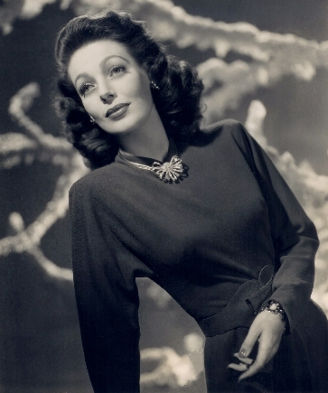 Studio publicity portrait of actress Loretta Young